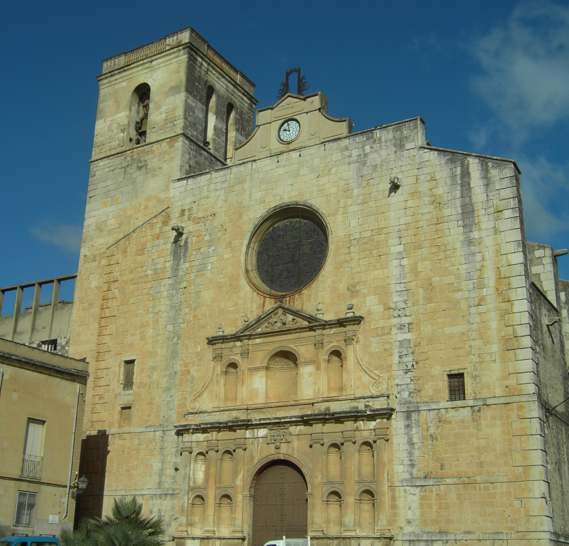 Saint James church and Church Square in Riudoms